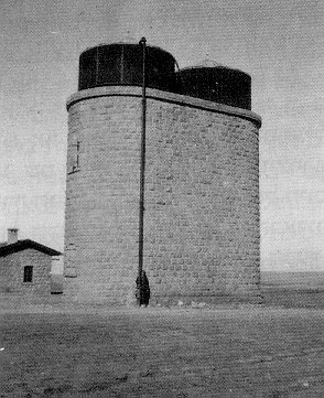 Beersheba water tower in the British Mandate of Palestine (Israel) in 1935